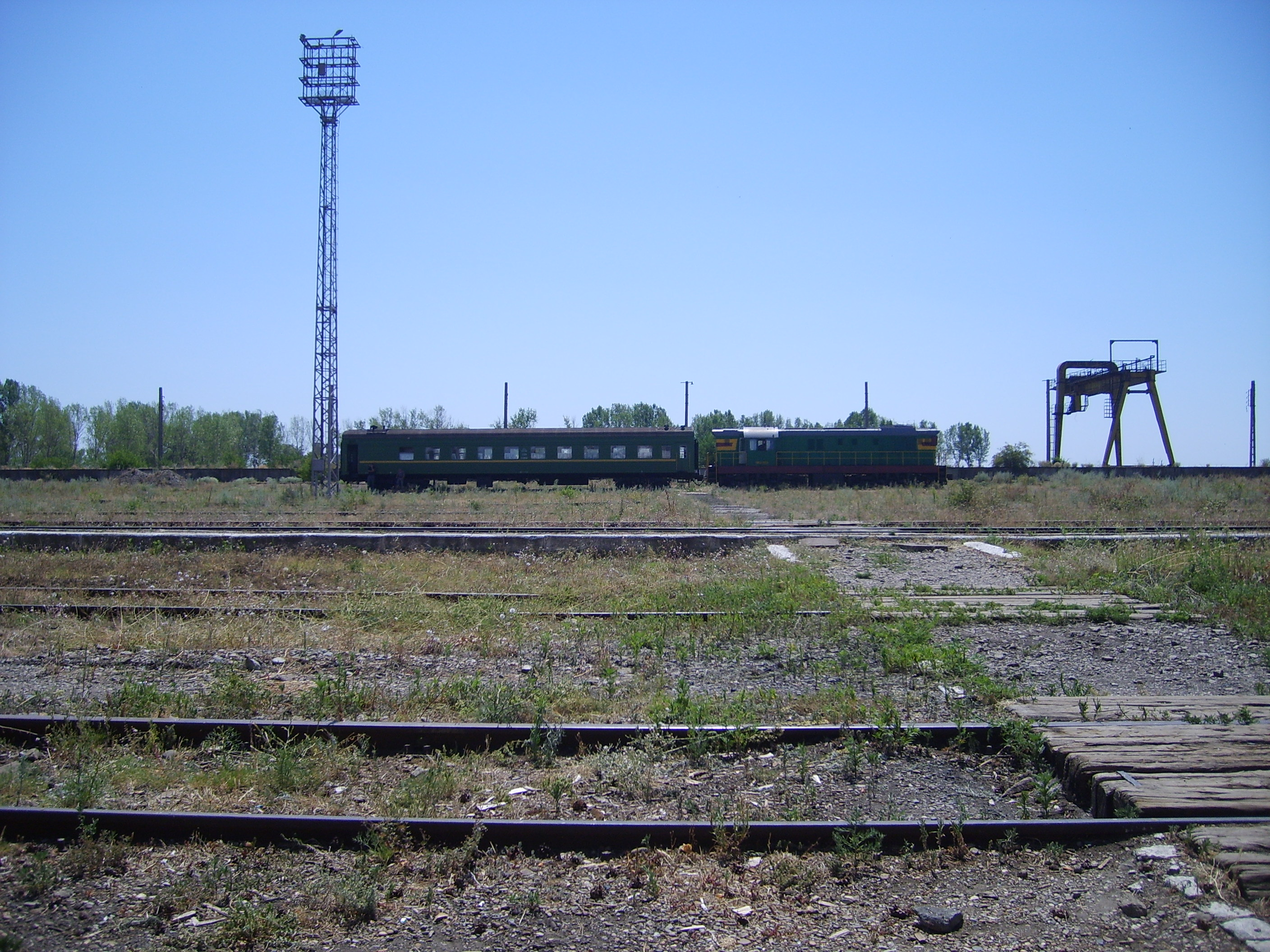 Train station in Fălciu, Vaslui, Romania. A former busy border crossing with the USSR (change of gauge); at time of our visit, it was largely empty, with most technology disfunctional. The passenger train in the back belongs to Moldovan railways and runs several times a week on broad-gauge rails across the border to Prut, Moldova.